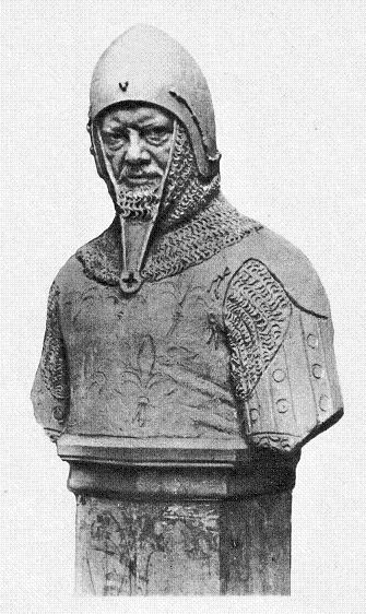 Knight „Wedigo von Plotho“, a (tody damaged) bust beside the monument commemorating to margrave Henry II. (Brandenburg), called „Heinrich das Kind“ (german for „Henry the child“) in the former Siegesallee in Berlin. Sculptor August Kraus, the sculpture was inaugurated on 22 March 1900. The painter and photographer Heinrich Zille acted as a model for his friend August Kraus, so that the Wedigo-bust has the physiognomy of Zille. At the present the statues are stored in the Lapidarium in Berlin-Kreuzberg.